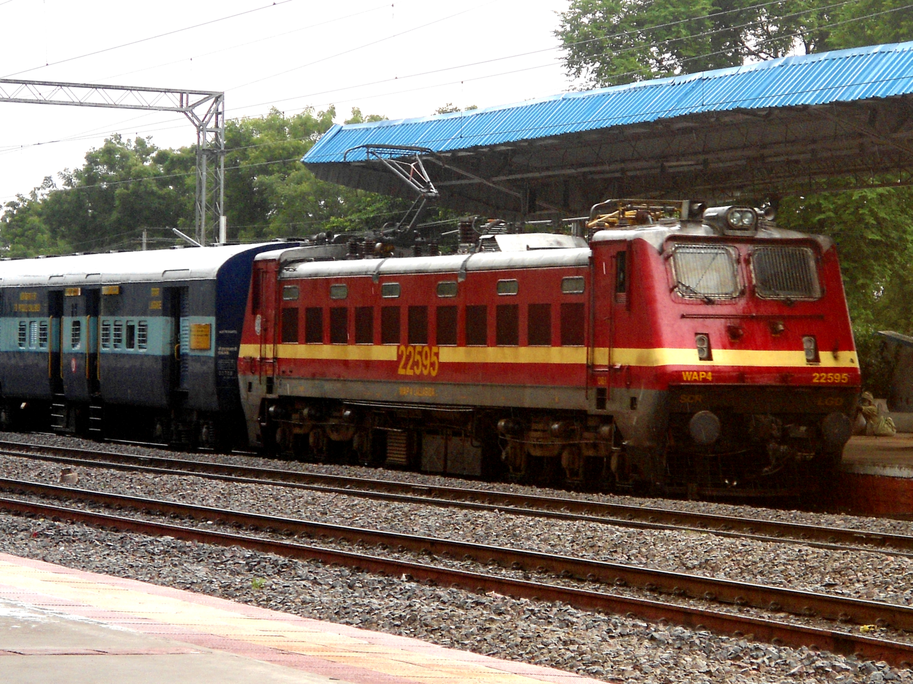 17202 Guntur bound Golconda Express at Aler Railway station hauled by WAP-4 (22595) loco of LGD shed